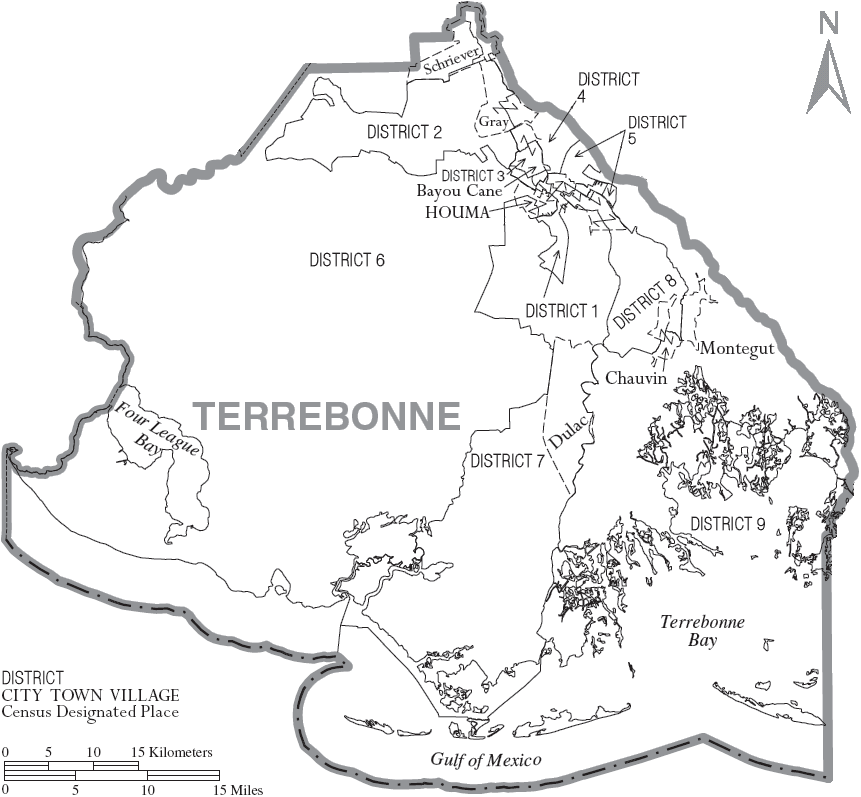 Map of Terrebonne Parish, Louisiana, United States with municipal and district boundaries